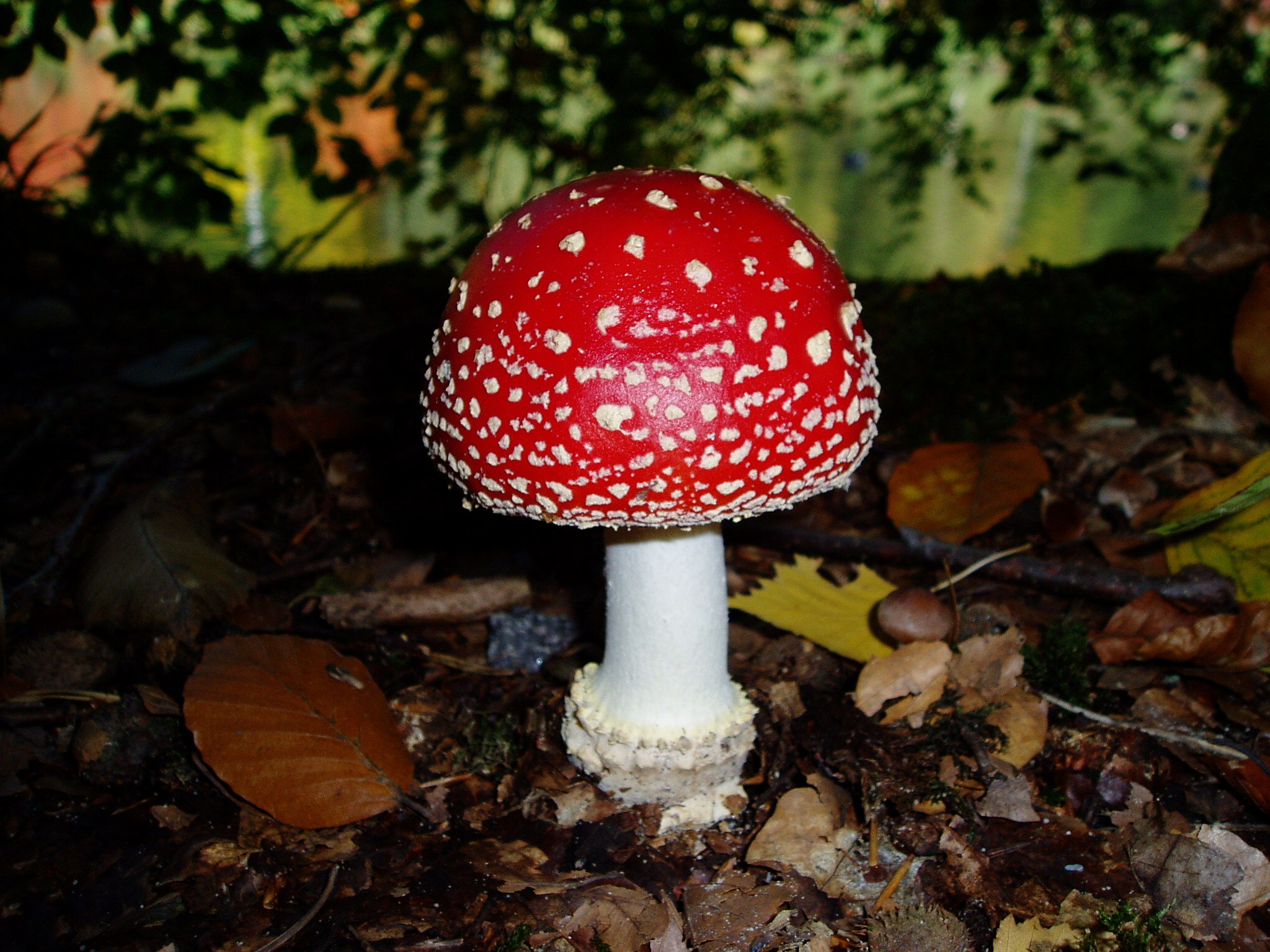 Amanita muscaria — mushroom in Palatinate forest (Germany), taken in October 2003